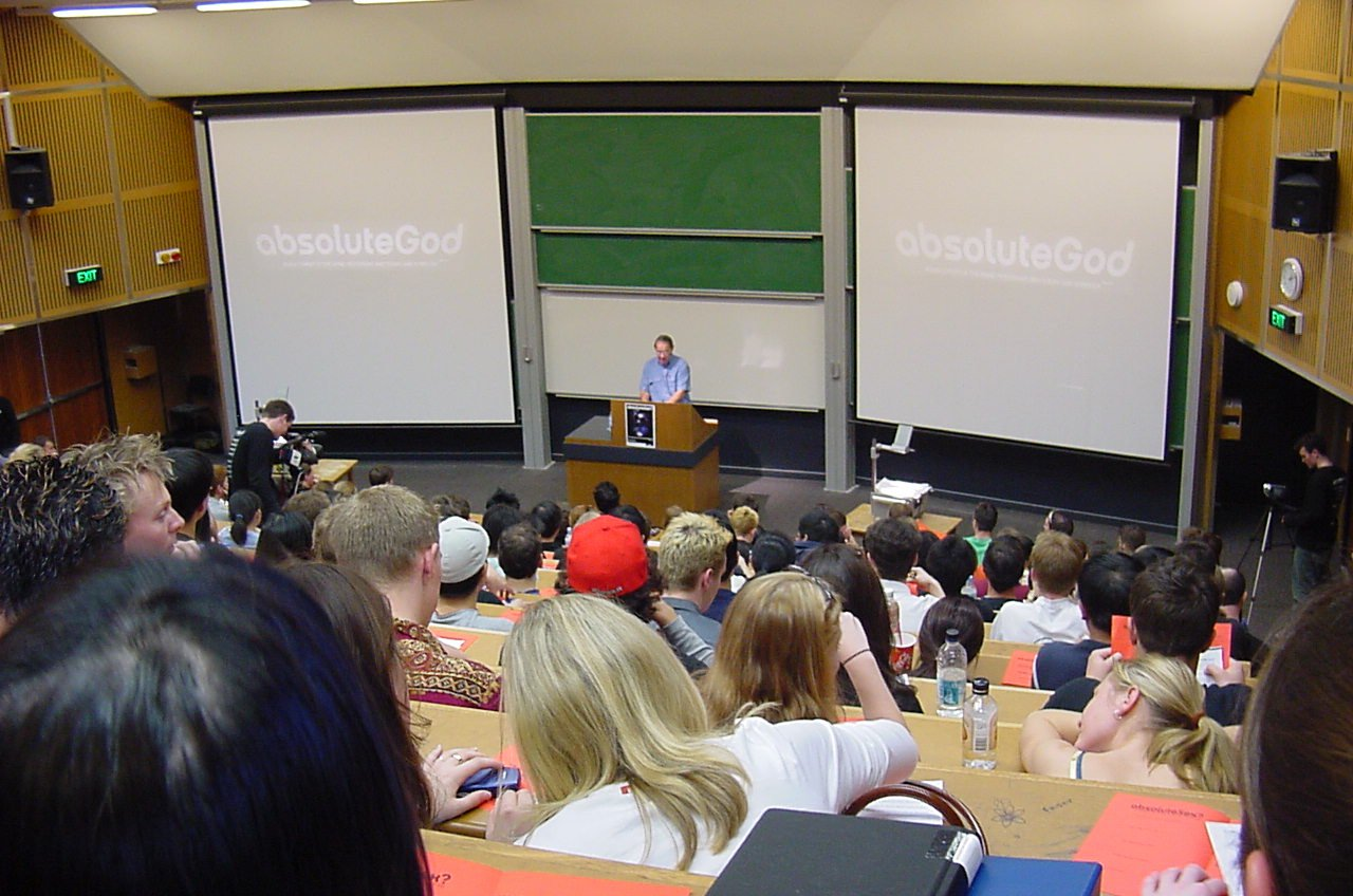 Philip Jensen speaking at absolutegod, SUEU 2002.